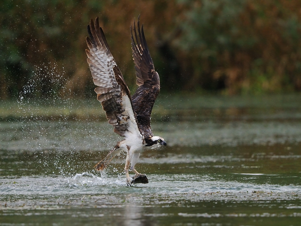 An Osprey catching a fish in USA.